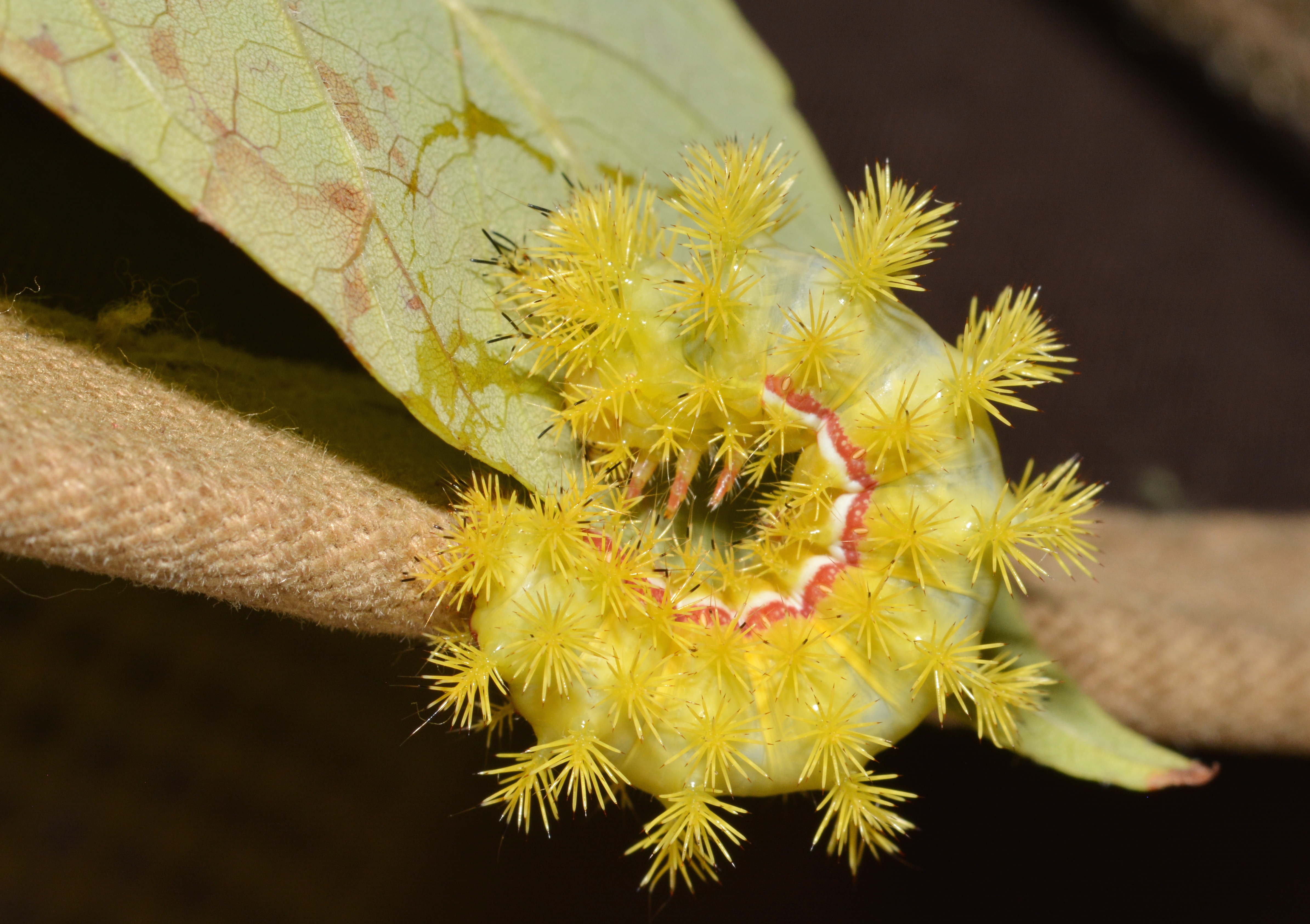 Don Robinson State Park Cedar Hill Missouri Jefferson County First moth survey 9/1/18